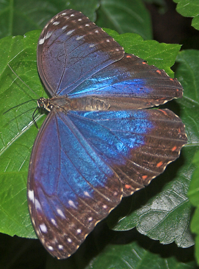 Morpho peleides